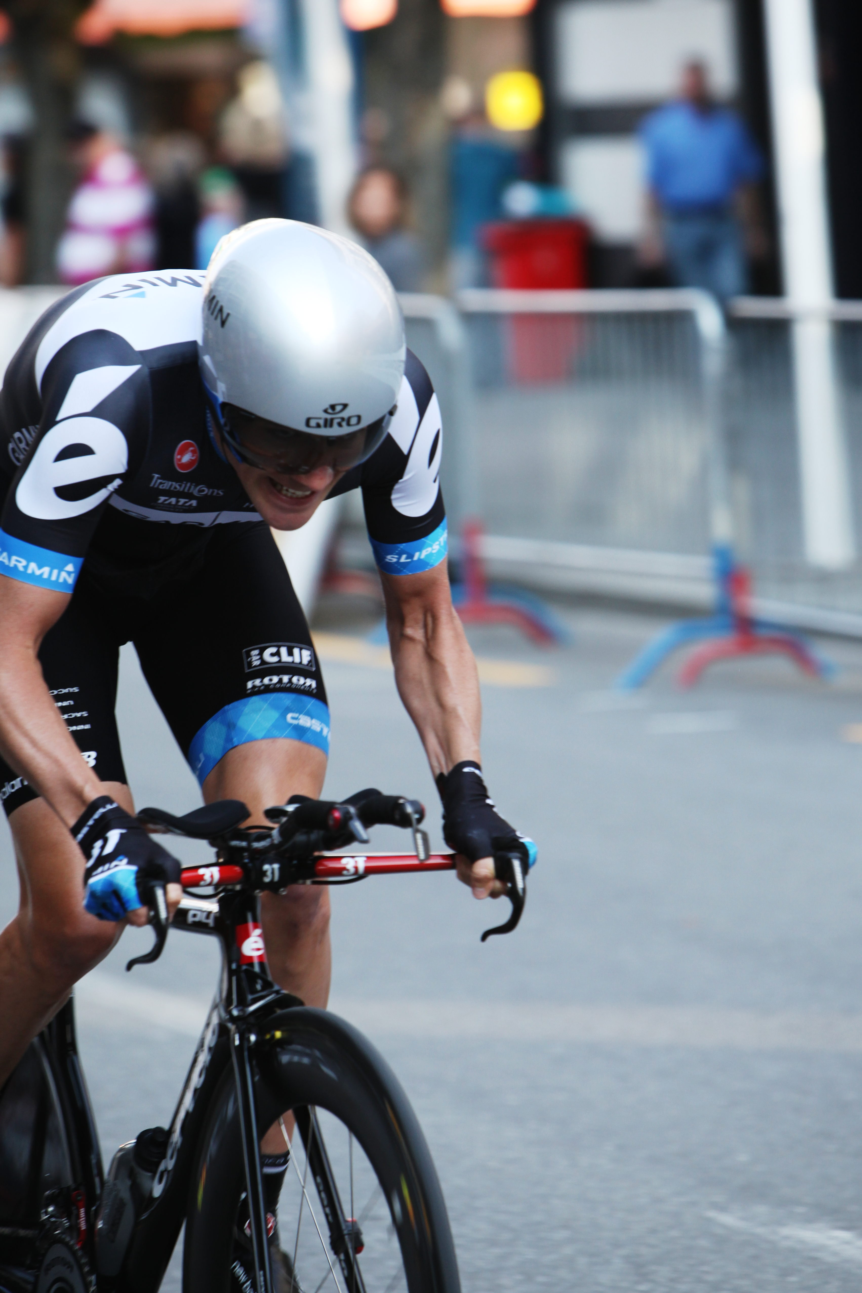 David Zabriskie at the prologue of the Tour de Romandie 2011